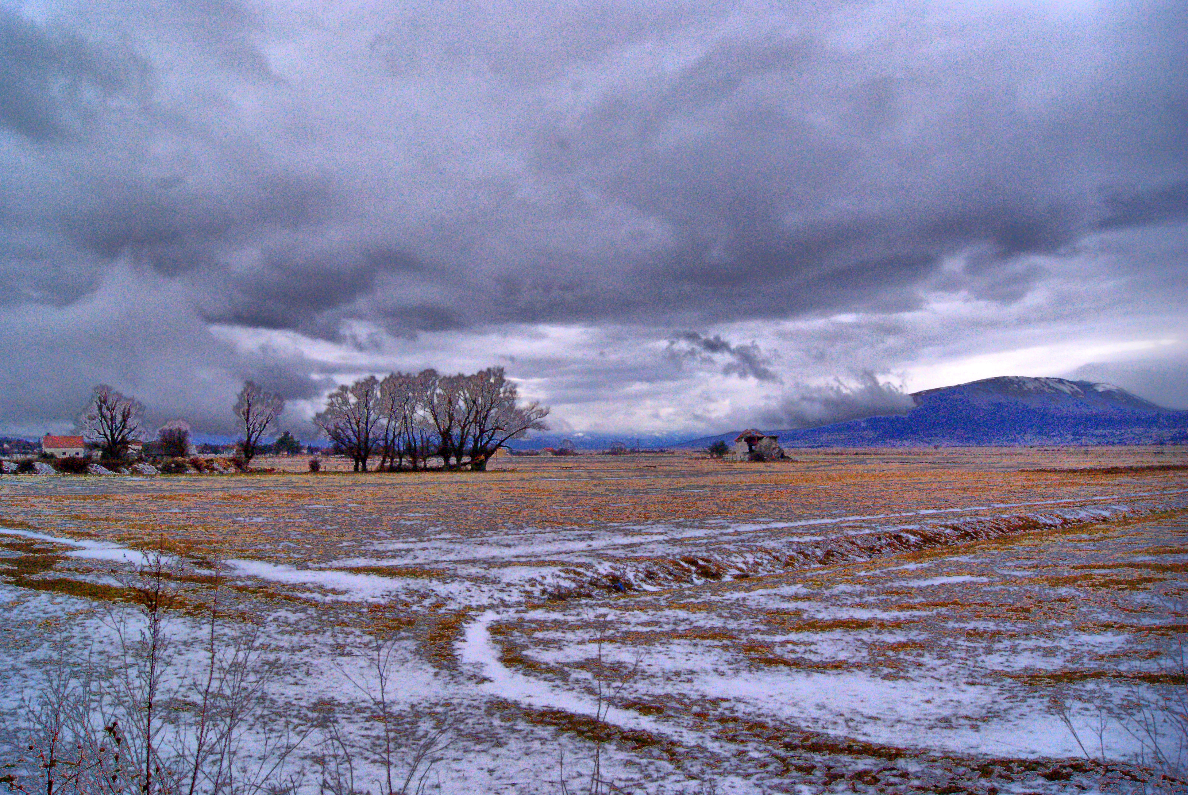 Livno Field during winter, a look towars Priluka village